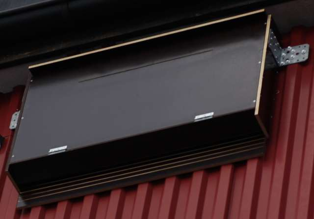 Big bat box